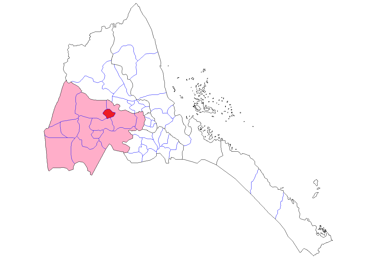 Agordat District